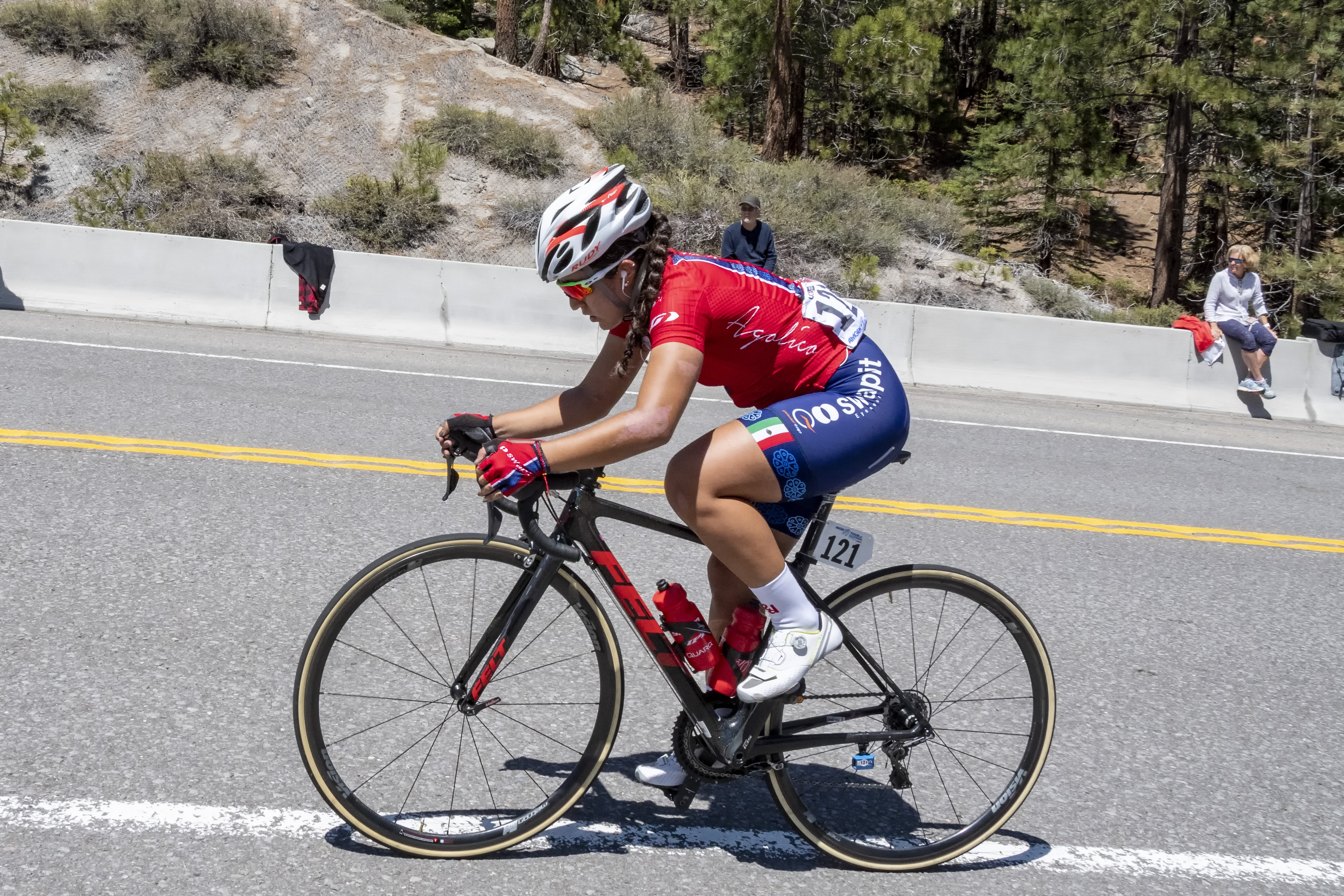 Amgen Women's Tour of California 2018